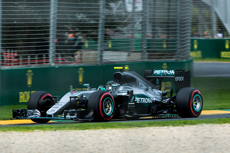 Nico Rosberg at the 2016 Australian Grand Prix